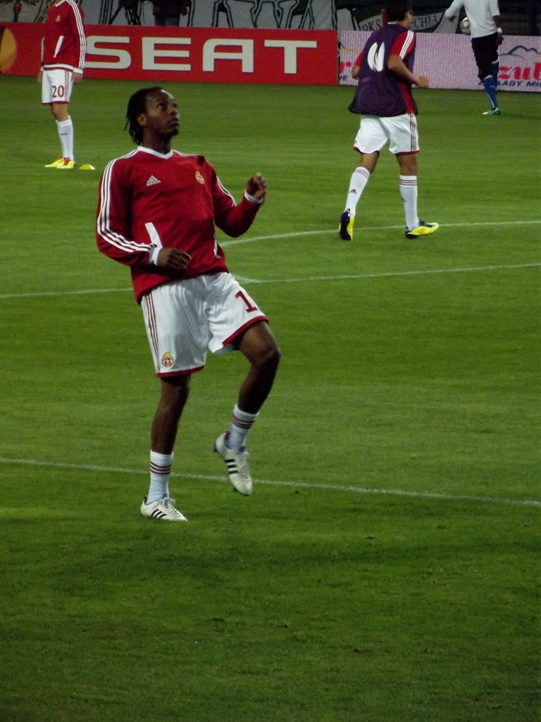 Júnior Díaz, Costa Rican football player.